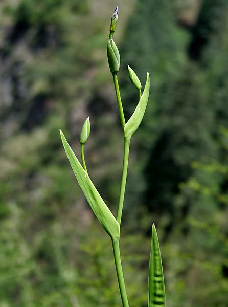 Iris milesii in Kullu District of Himachal Pradesh, India.